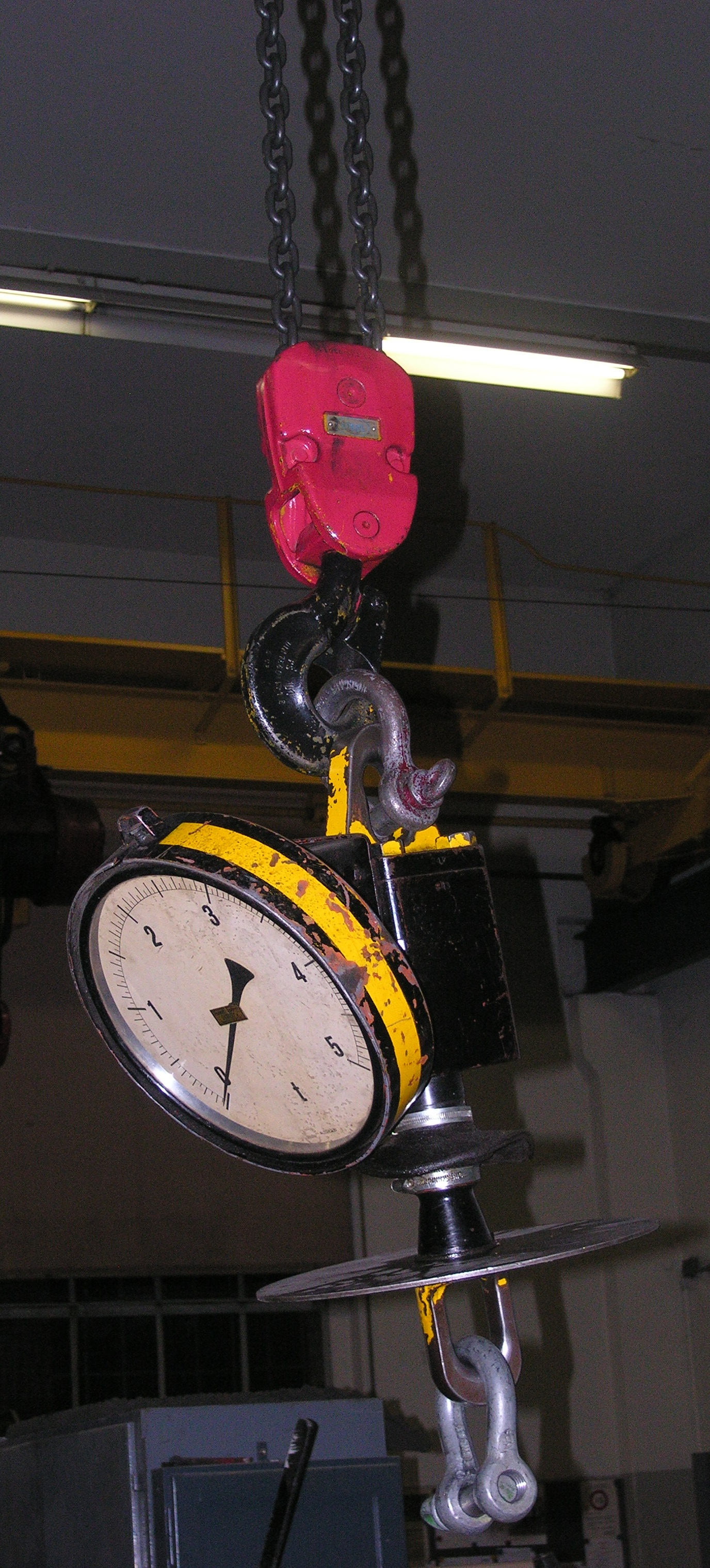 A weighting device, mounted on a hook of a crane. The carying capacity of the crane was about 10 t.